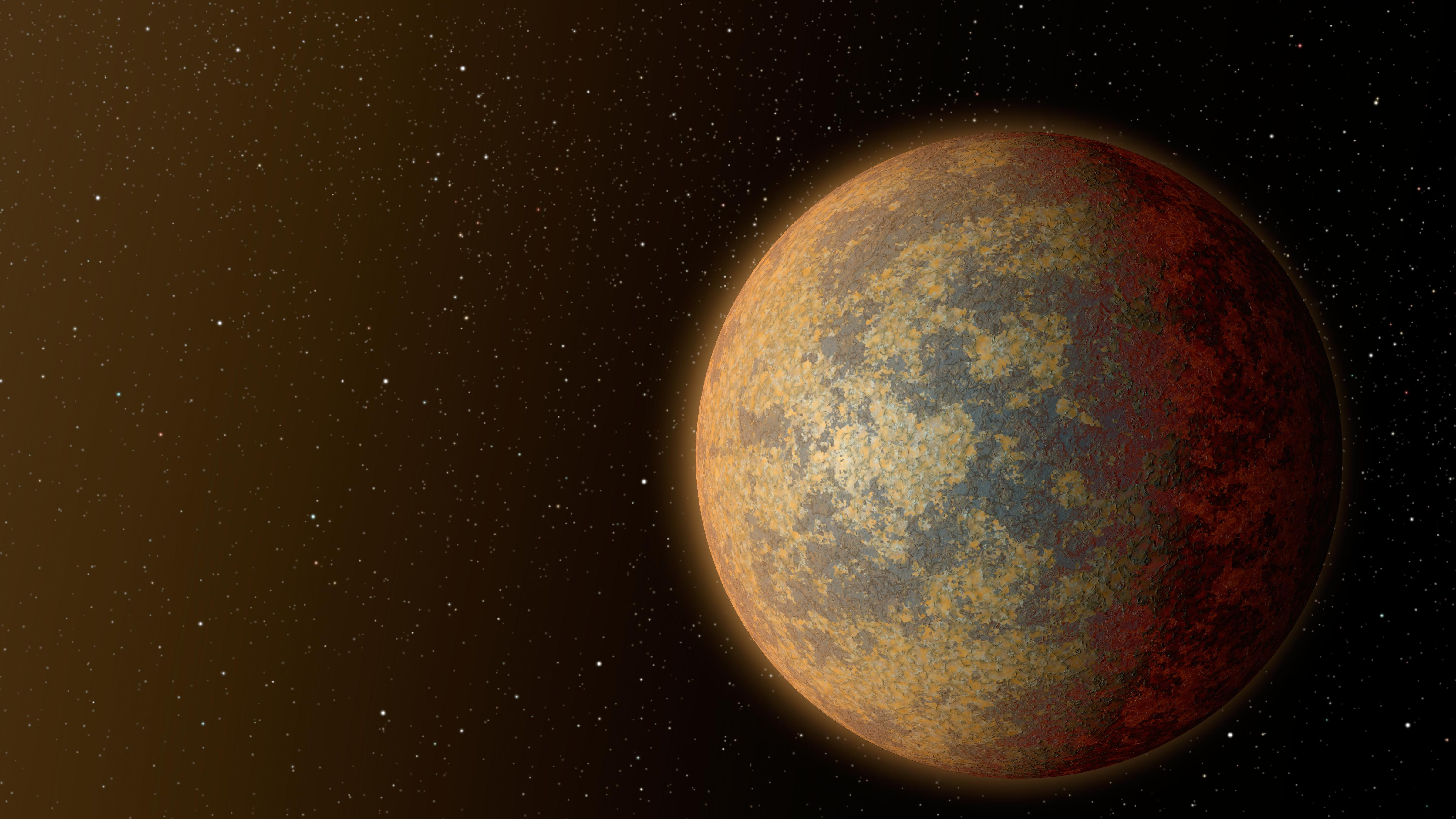 PIA19833: Hot, Rocky World (Artist's Concept) This artist's rendition shows one possible appearance for the planet HD 219134b, the nearest confirmed rocky exoplanet found to date outside our solar system. The planet is 1.6 times the size of Earth, and whips around its star in just three days. Scientists predict that the scorching-hot planet -- known to be rocky through measurements of its mass and size -- would have a rocky, partially molten surface with geological activity, including possibly volcanoes. NASA's Jet Propulsion Laboratory in Pasadena, California, manages the Spitzer Space Telescope mission for NASA's Science Mission Directorate, Washington. Science operations are conducted at the Spitzer Science Center at the California Institute of Technology in Pasadena. Science operations are conducted at the Spitzer Science Center at the California Institute of Technology in Pasadena. Spacecraft operations are based at Lockheed Martin Space Systems Company, Littleton, Colorado. Data are archived at the Infrared Science Archive housed at the Infrared Processing and Analysis Center at Caltech. Caltech manages JPL for NASA. For more information about Spitzer, visit and